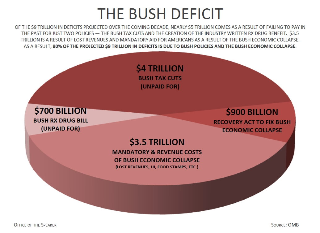 Of the $9 trillion in deficits projected over the coming decade, nearly $5 trillion comes as a result of failing to pay in the past for just two policies — the Bush tax cuts and the creation of the industry written Rx drug benefit. $3.5 trillion is a result of lost revenues and mandatory aid for Americans as a result of the Bush economic collapse. As a result, 90% of the projected $9 trillion in deficits is due to Bush policies and the Bush economic collapse.